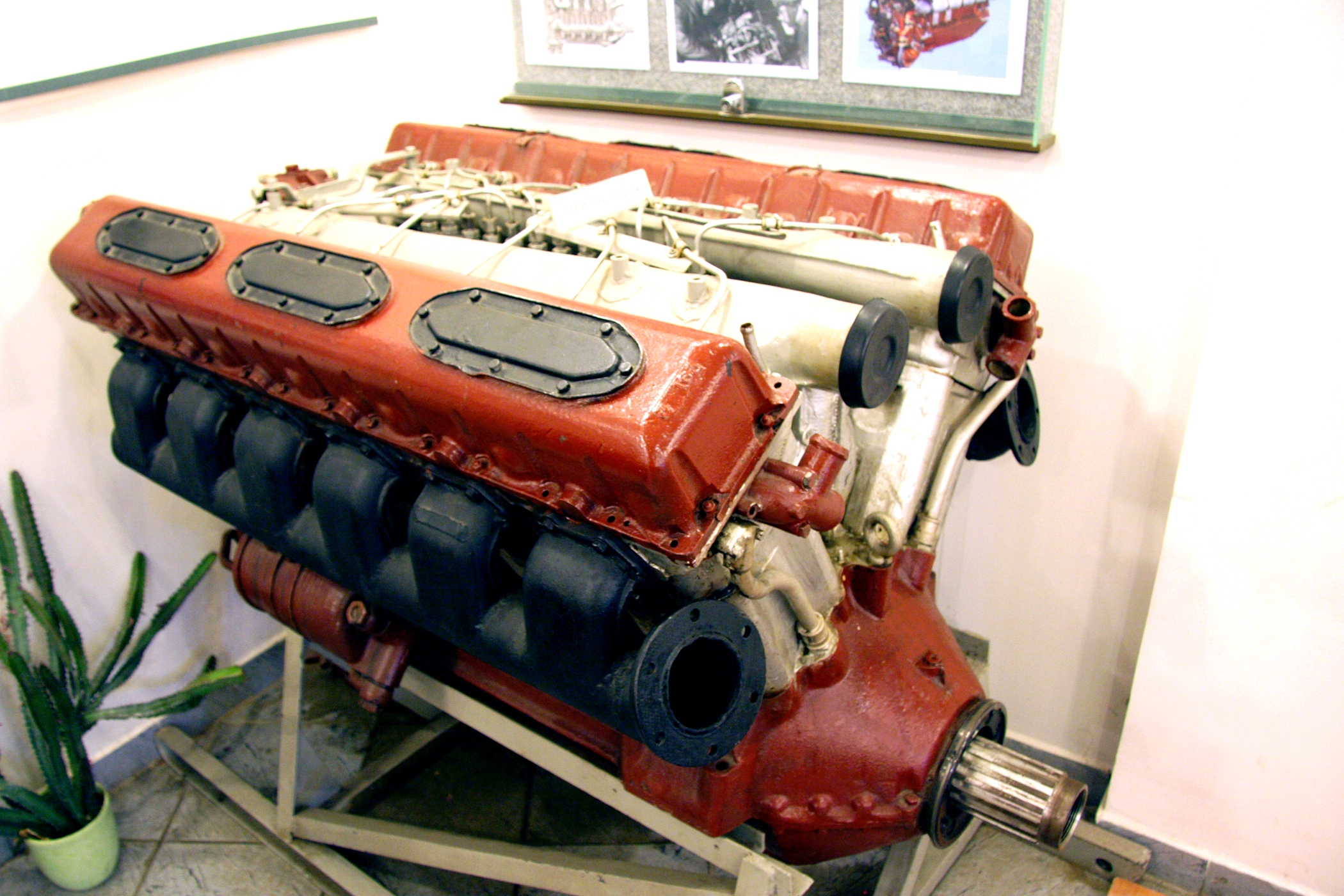 Diesel model V-2 of a T-34 tank.